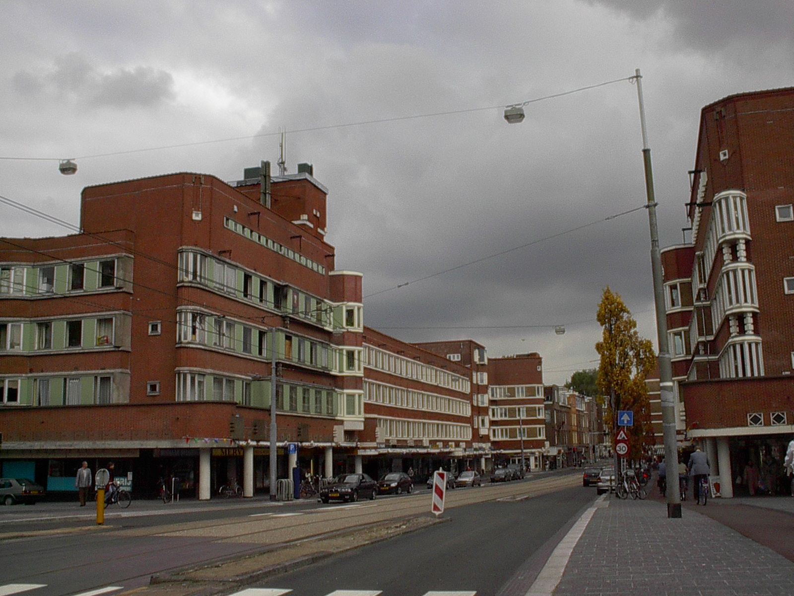 Plan West Amsterdam 1922-1927, Jan Evertsenstraat near the Admiralengracht, architecture by Johan van der Mey (1878-1949).